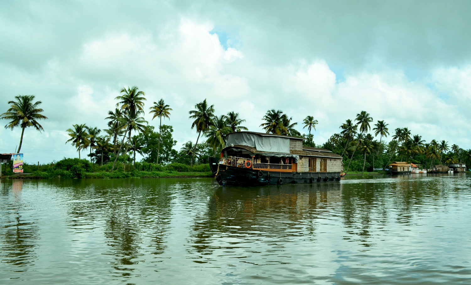 Vembanadu Lake